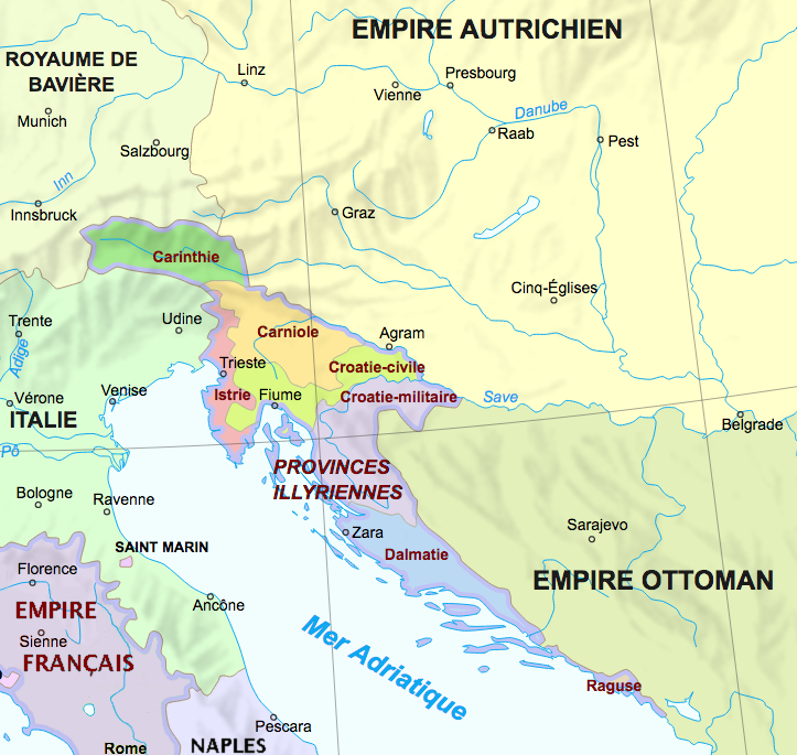 Map in French ot the Illyrian Provinces, extract from File:Map_administrative_divisions_of_the_First_French_Empire_1812-fr.svg by Andrei Nacu [1]